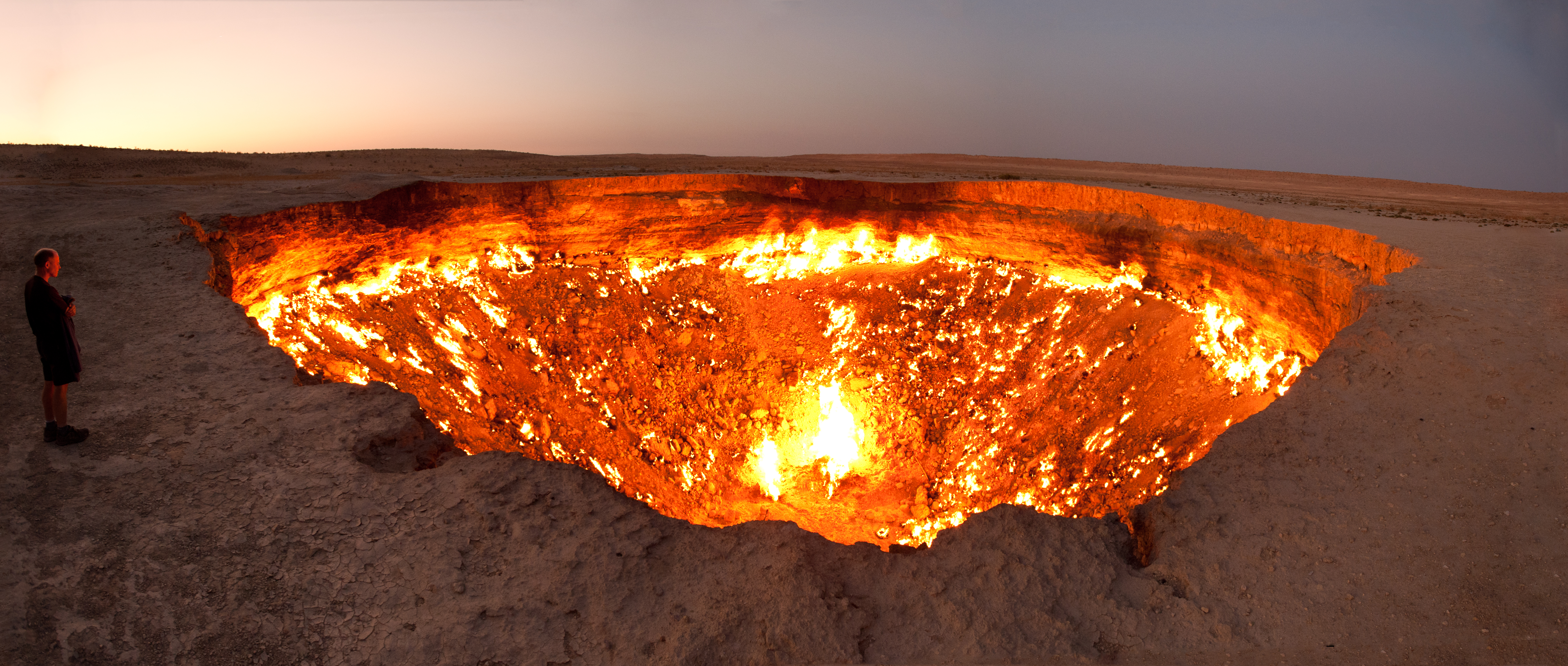 The Door to Hell, a burning natural gas field in Derweze, Turkmenistan. This image is made from three 17mm shots stitched together and the field of view (~170°) is larger than it may appear (The field has roughly the size of two basketball courts).